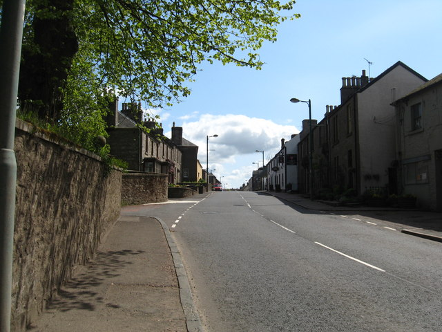 Main Street, Carnwath